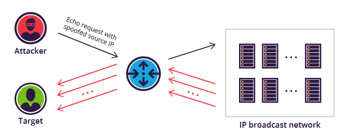 DDos Attack